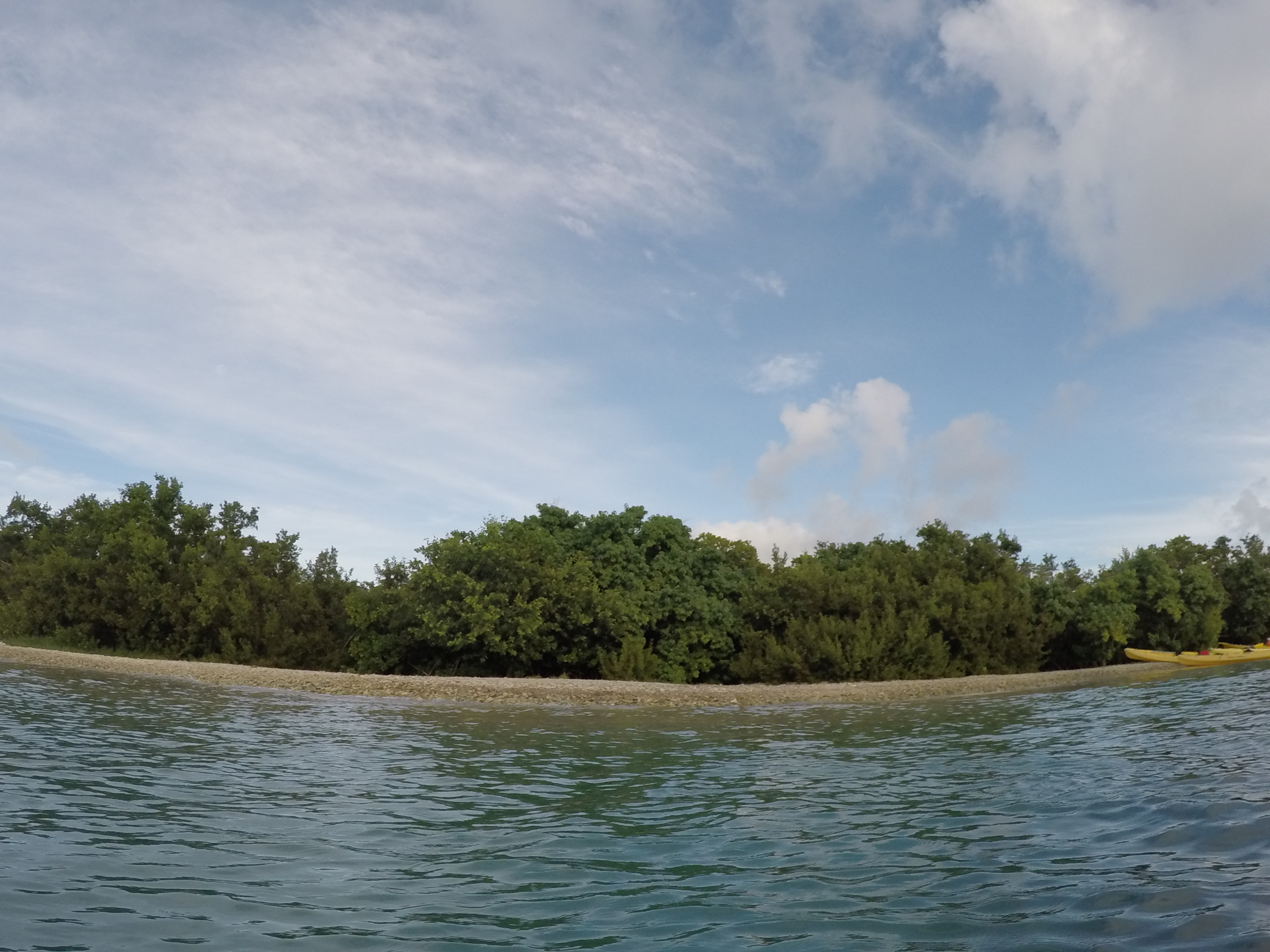 Cas Cay, St Thomas, USVI, Dec 2014.